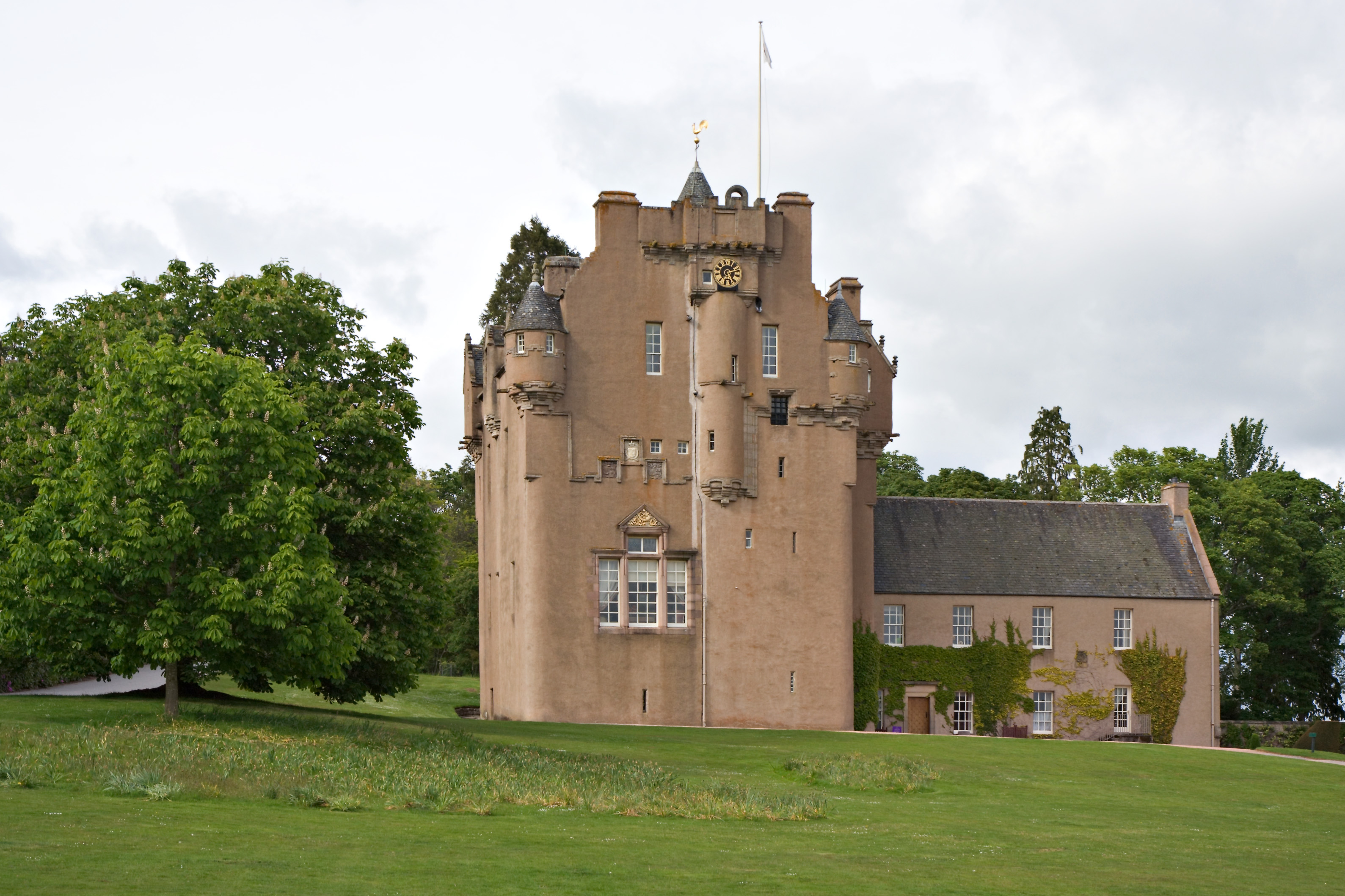 Crathes Castle front view; Aberdeenshire, Scotland